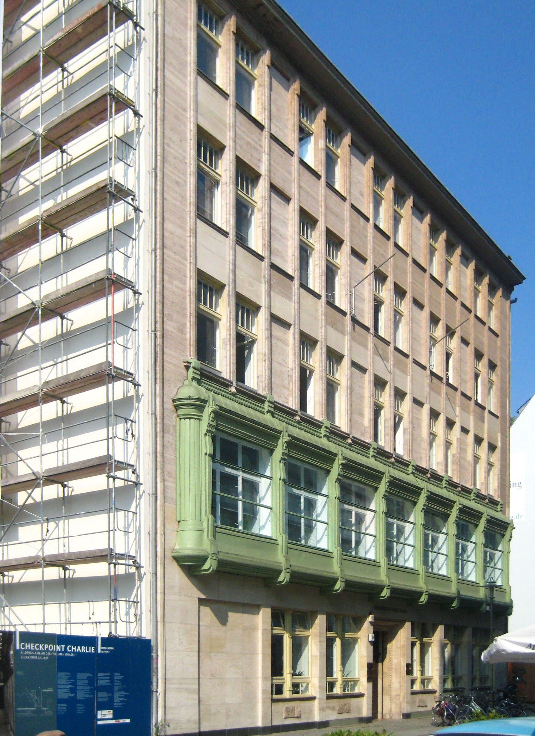 The Haus Deutscher Stiftungen (House of German Foundations) at Mauerstraße No. 93 in Berlin-Mitte, near the junction with Friedrichstraße. It was built around 1905 as a commercial building. It is now seat of the Bundesverband Deutscher Stiftungen (Federal Association of German Foundations) among others. The building has been designated as a historic landmark.